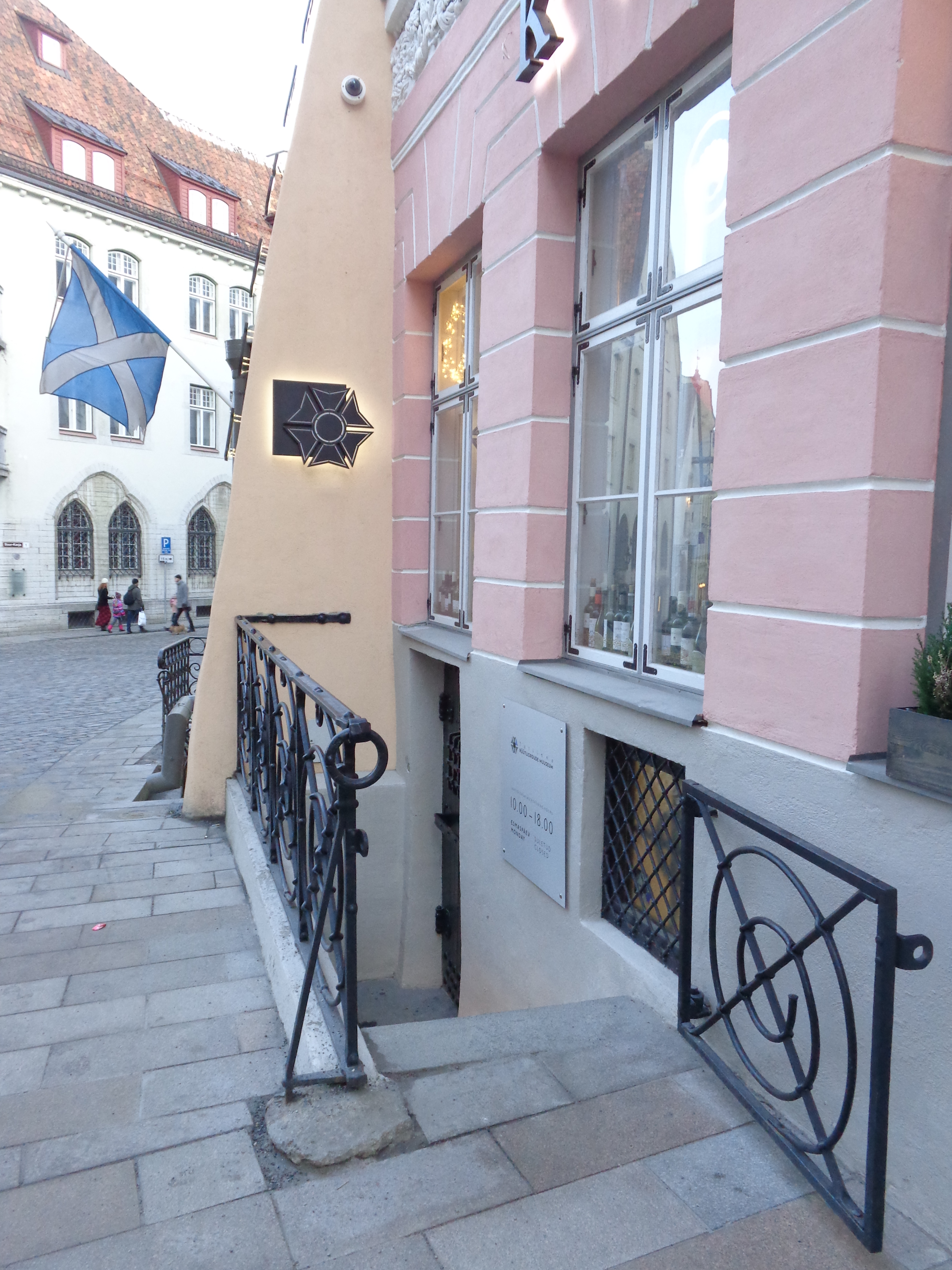 Tallinn Museum of Orders of Knighthood. Estonia. Entrance.